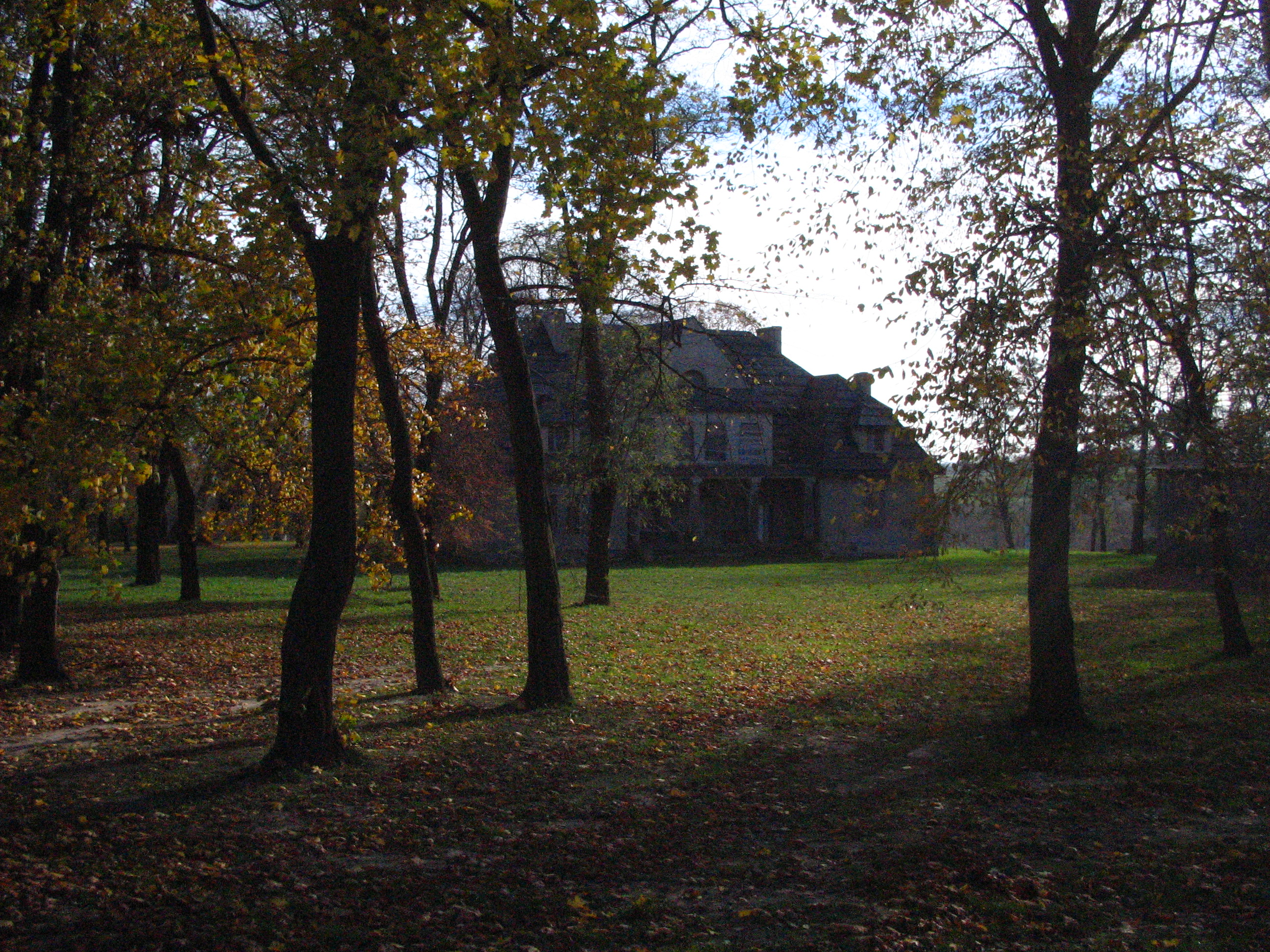 Manor house in Boksyce